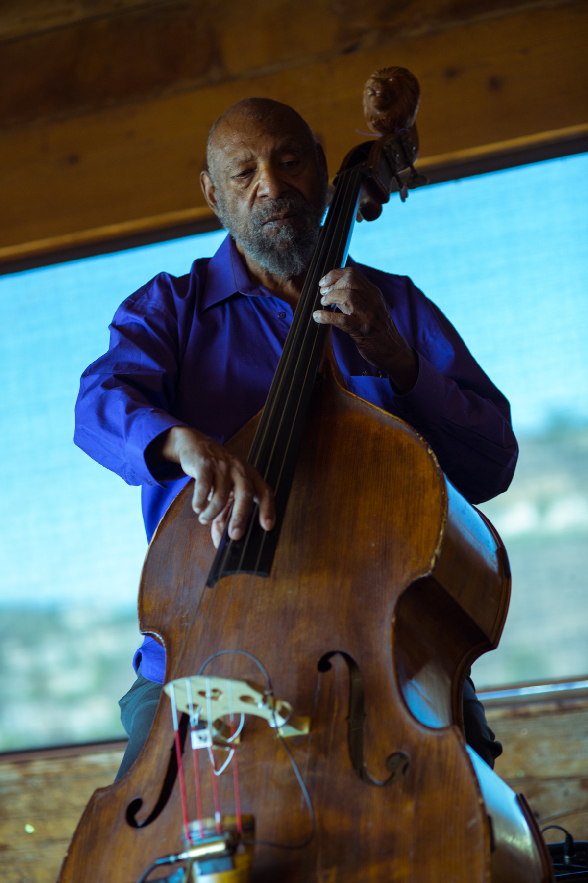 Henry Franklin playing on September 16th, 2018